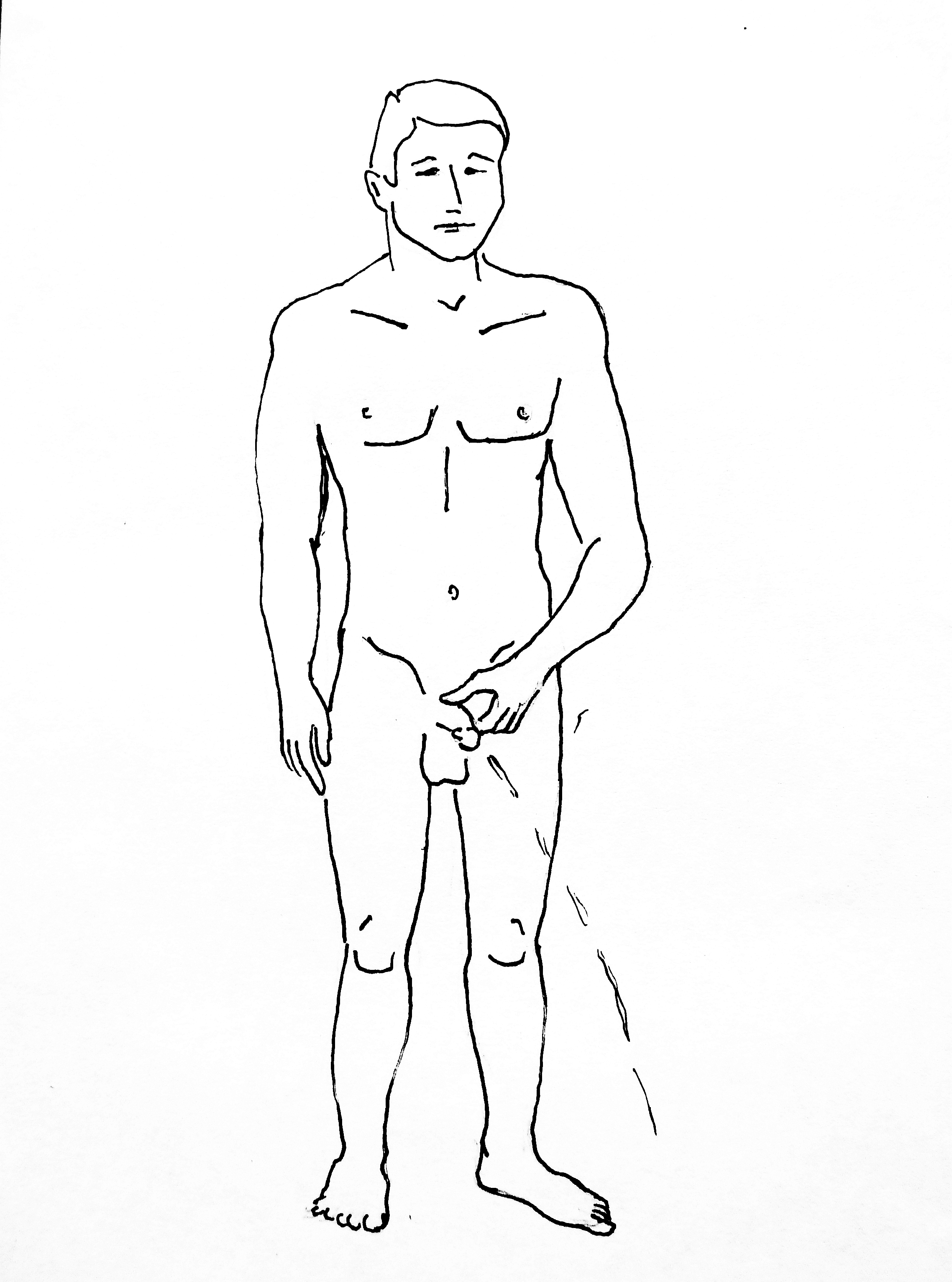 Drawing depicting human male urination